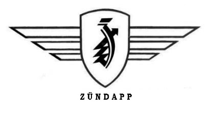 Brand name and trade name